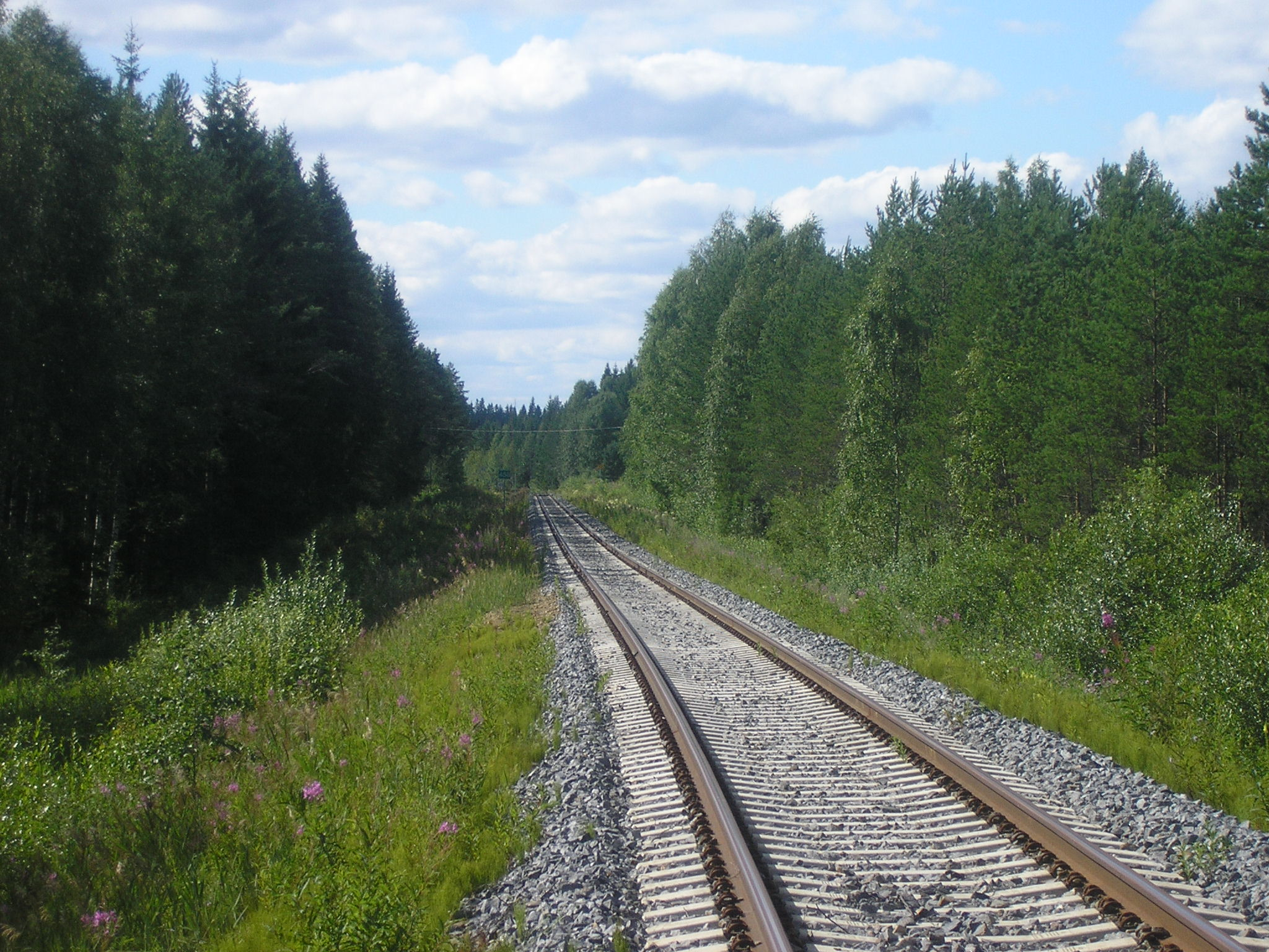 Huutokoski–Parikkala railway in Savonlinna, Finland